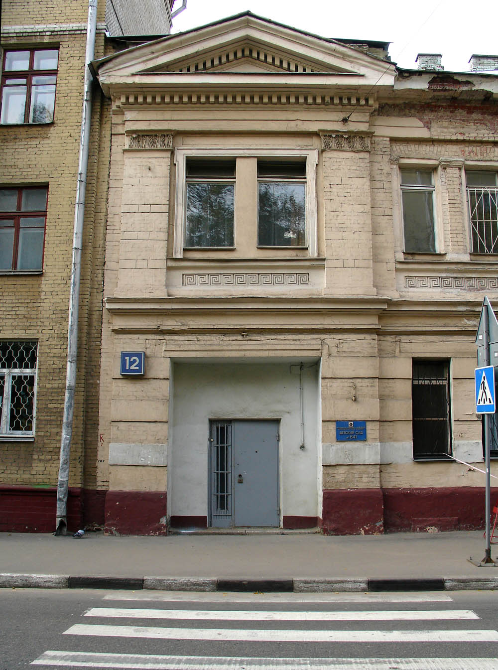 Shipok Street, Moscow